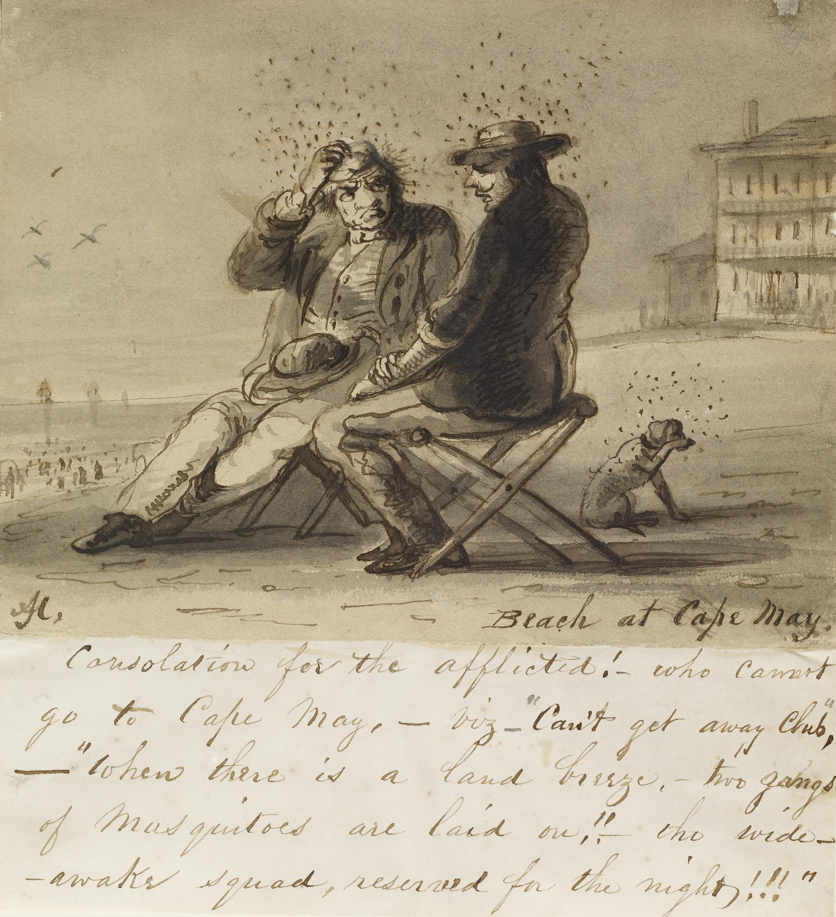 Cape May, New Jersey, is among the oldest American seaside resorts, hosting vacationers from the mid-Atlantic region from the 18th century forward. In this drawing, Miller pokes gentle fun at leisure travelers. Two men seated on folding stools sit on the sand despite clouds of annoying insects. The caption reads: Consolation for the afflicted!-who cannot go to Cape May,-viz- "Can't get away Club", -"when there is a land breeze,-two gangs of mosquitoes are laid on!!-the wide-awake squad, reserved for the night!!!"